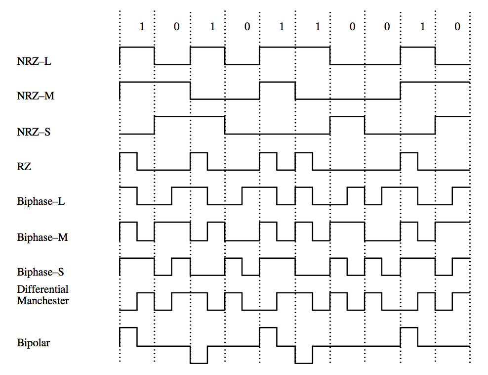 This sketch shows how an arbitrary string of 1s and 0s is represented by various line codes.